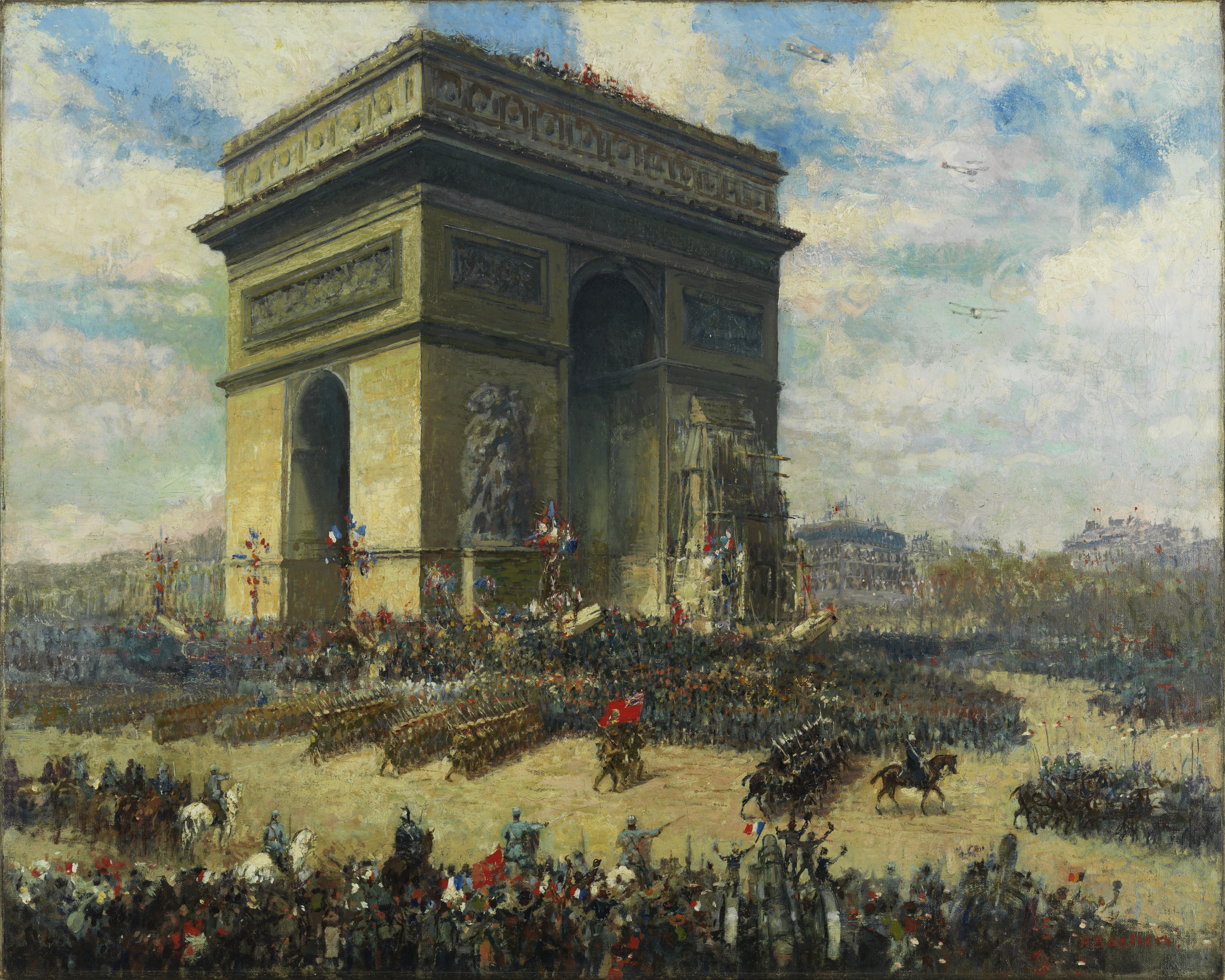 Canadian troops on parade under the Red Ensign at Paris's Arc de Triomphe, part of an Allied victory parade on 14 July 1919.